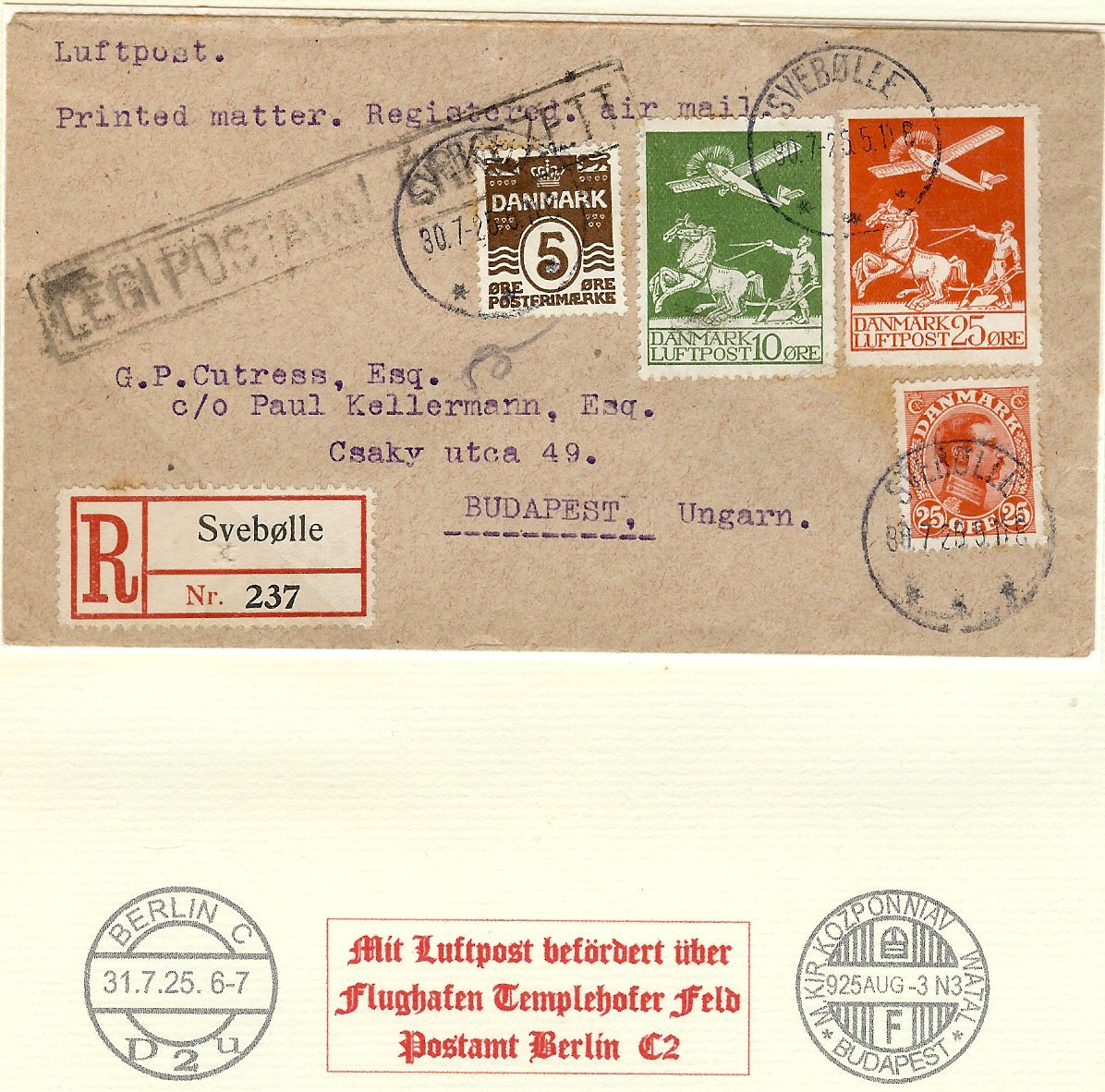 Scan of 1925 airmail cover from Denmark to Hungary